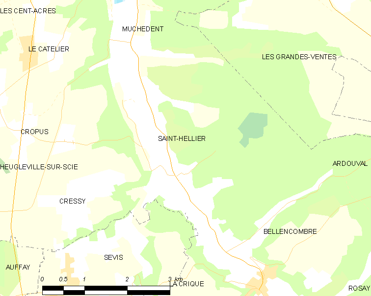 Map of French municipality Saint-Hellier